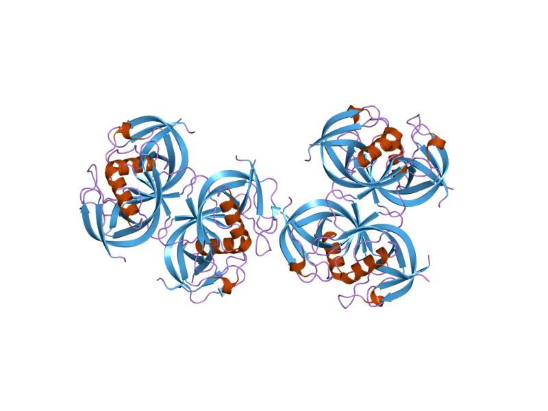 Cartoon representation of the molecular structure of protein registered with 2ane code.